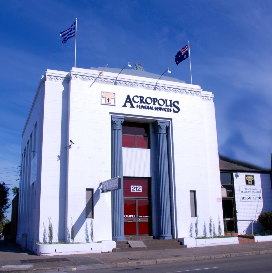 Hellenic Funeral Servies, Earlwood N.S.W. (2008)